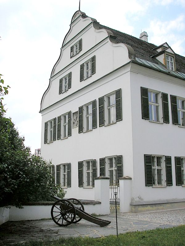 Scherneck castle near Rehling (Bavaria, Germany). Southern gable of the castle.